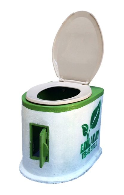 The latest versión of SOIL's EkoLakay container-based toilet.